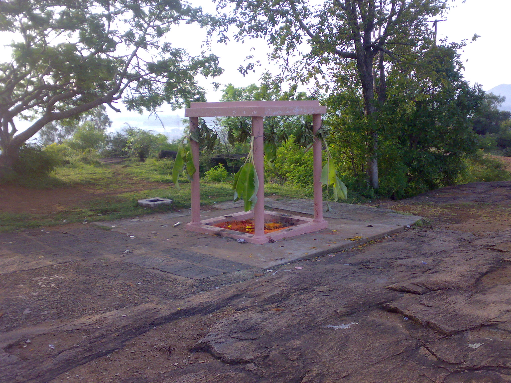 Sri Mahadeshwara Swamy the Godman first steped at this place above the hills. The foot prints of Sri Mahadeshwara Swamy is preserved.